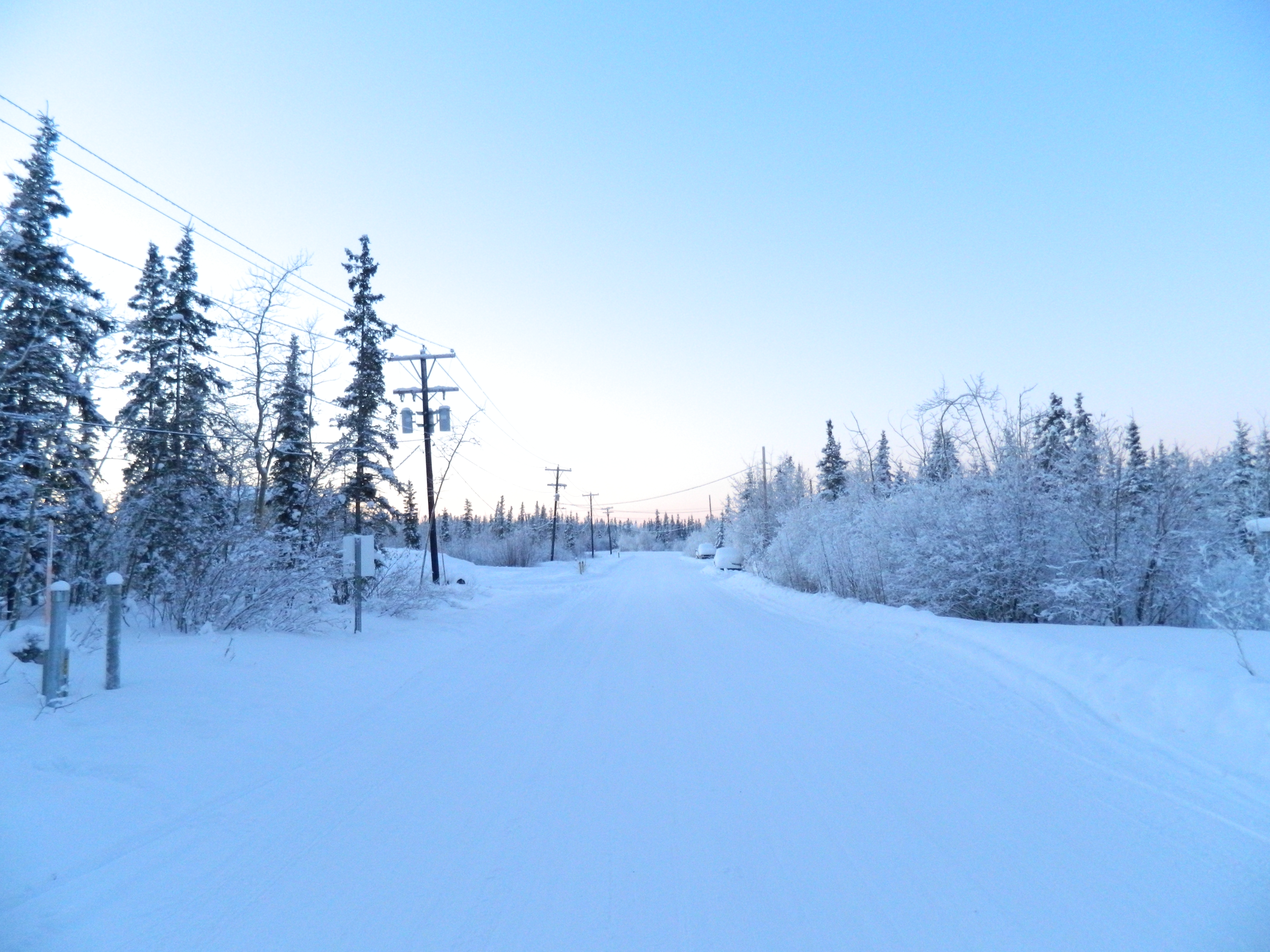 Street in -38 F weather, on the Winter Solstice.